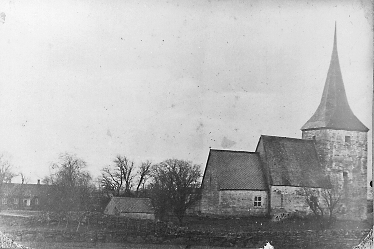 Vinköls gamla kyrka (english:Vinköl old church) in Västergötland and Skara municipality in Västragötaland county, Sweden.